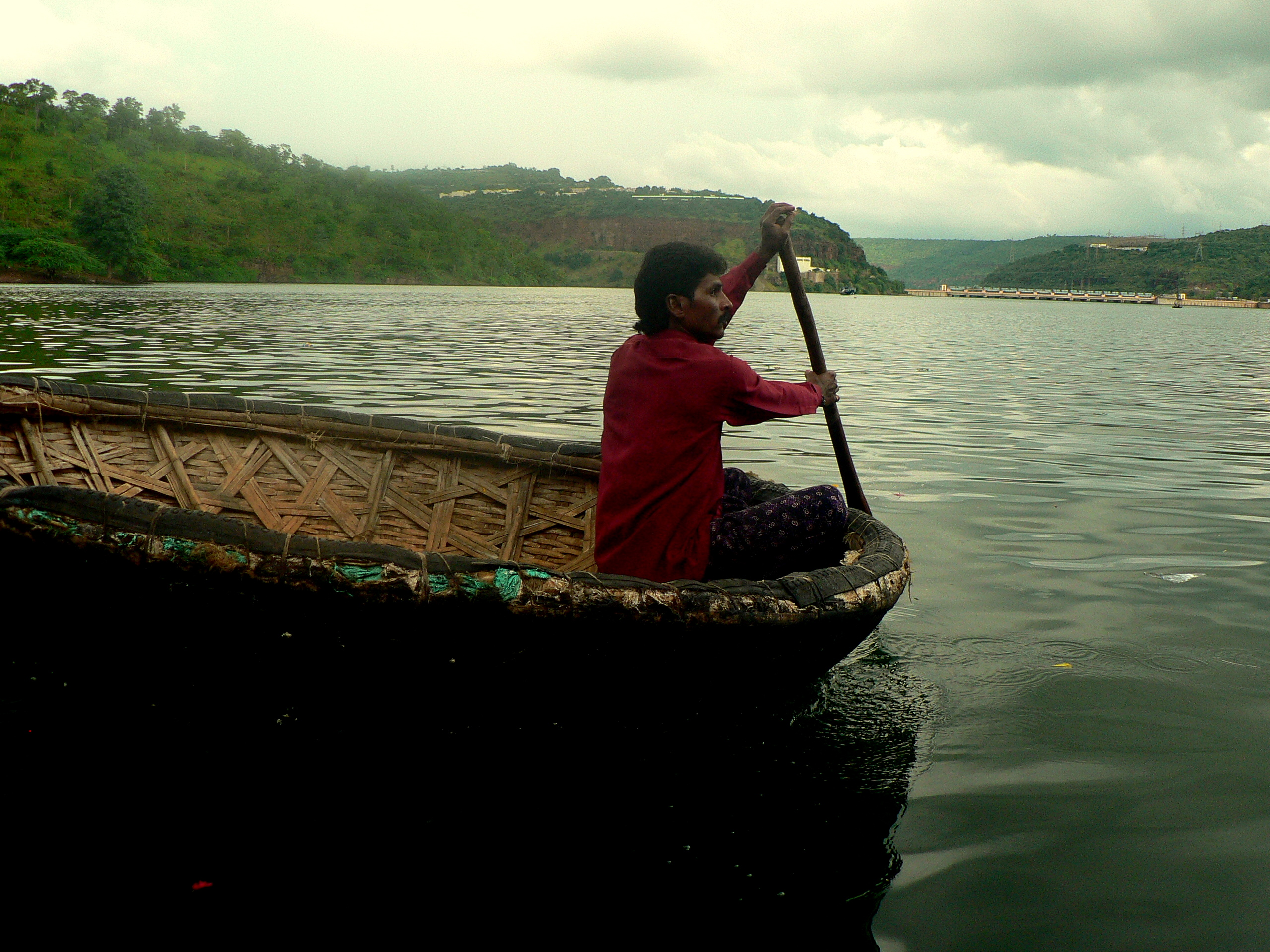 Round boats(Putti) in Krishna river at Srisailam, Andhra Pradesh